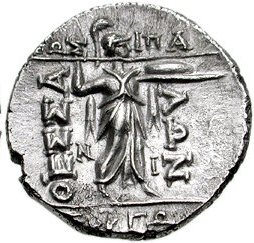 side 2 of coin seen in File:Thessalian leaegue stater Sosipatros Gorgopas Itonia Athina 196-146 BC.jpg